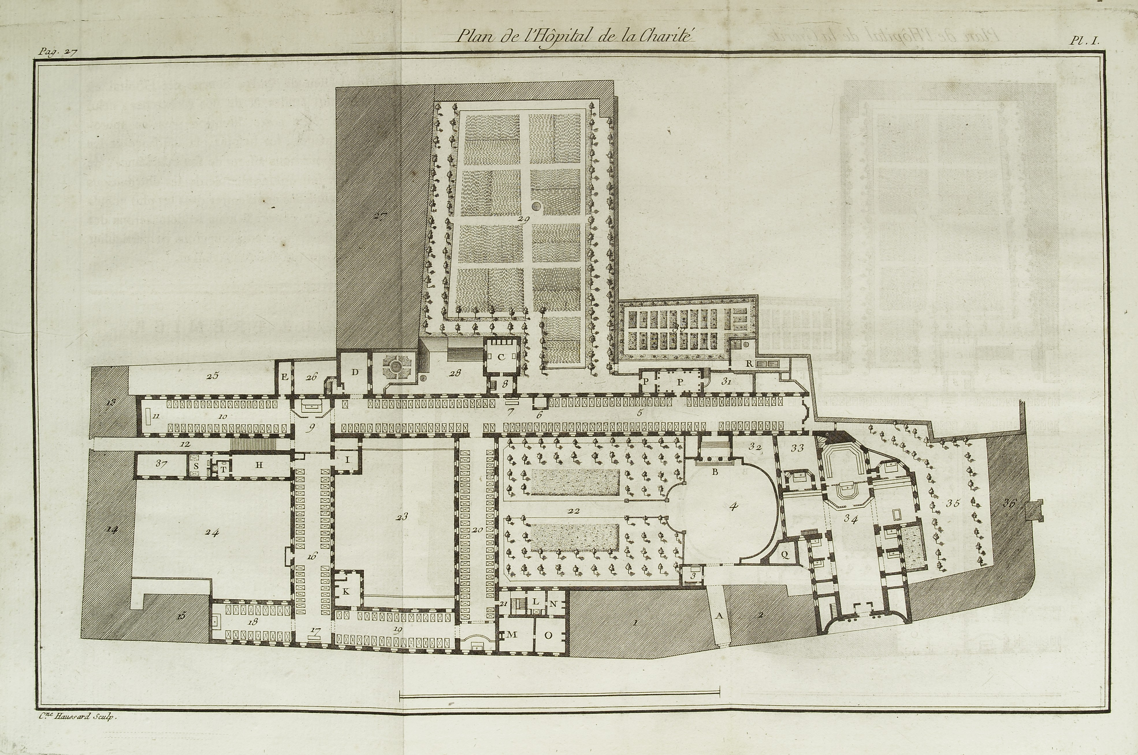 Ground plan of the Hospital de la Charite, Paris, France Wellcome Images Keywords: Hospital; Hospitals; Public Health